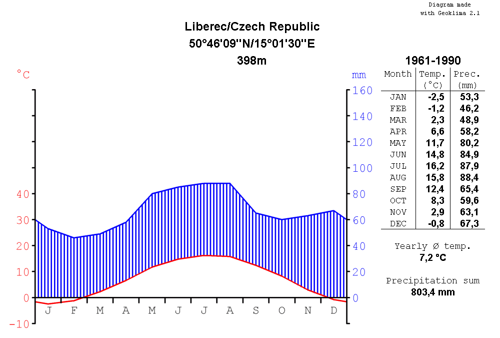 climate chart of Liberec, Czech Republic, for the period of time from 1961 to 1990, in the format by Walter and Lieth, metric, °Celsius and millimeters, chart made with Geoklima 2.1, label in English